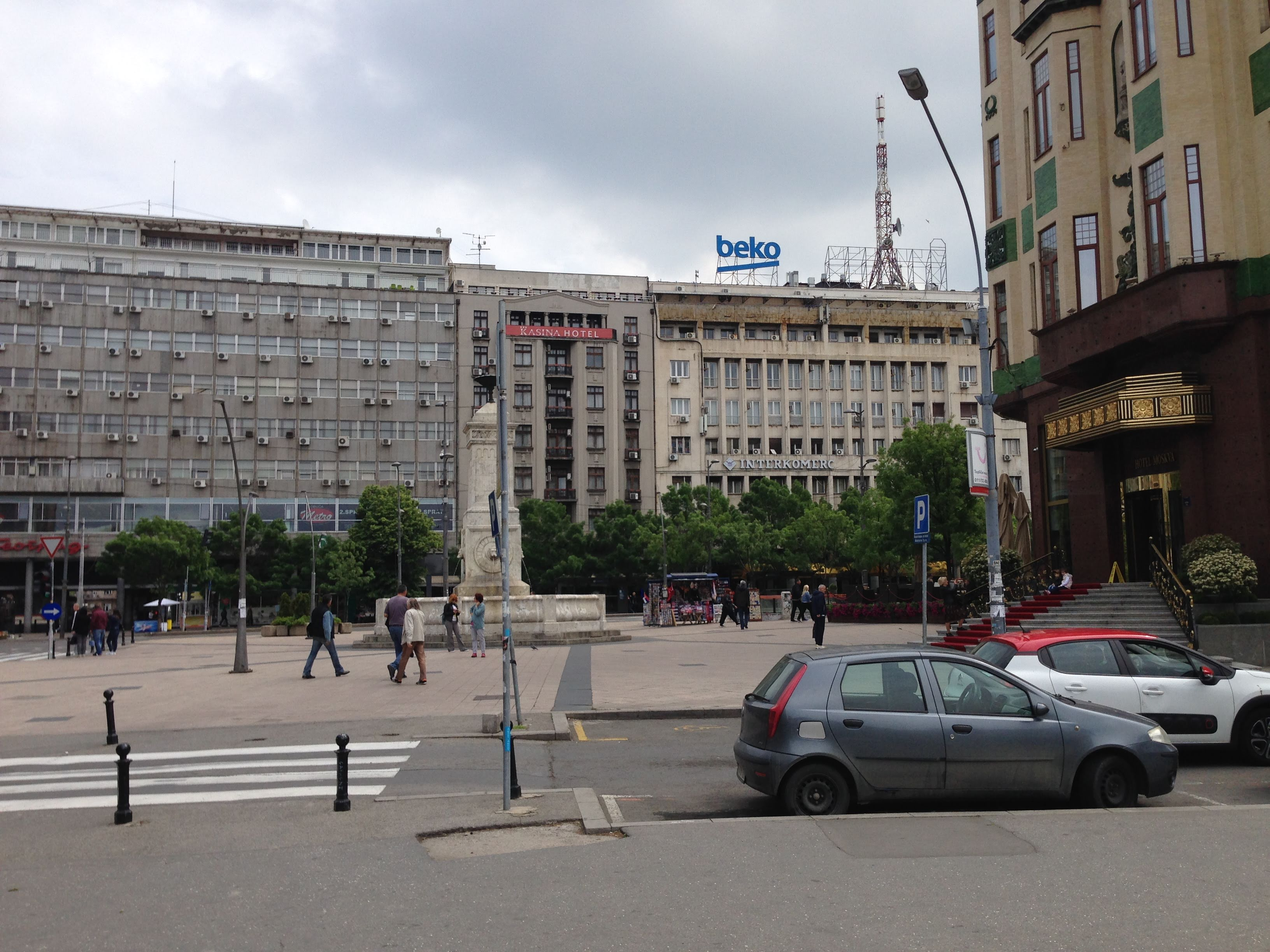 Department store Belgrade